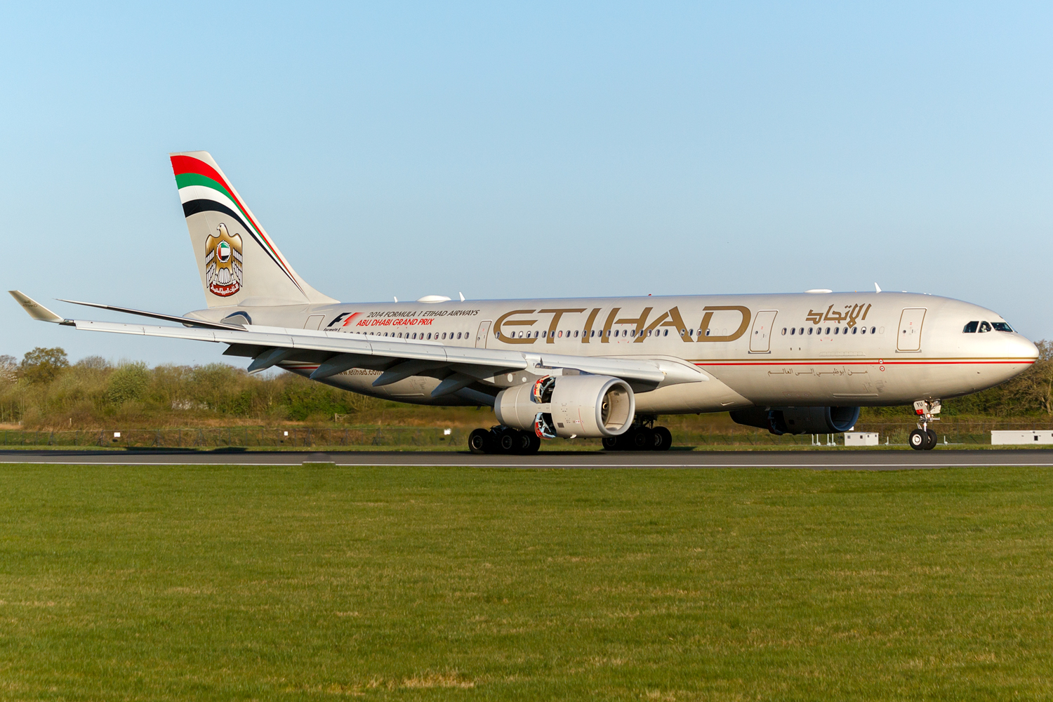 Etihad Airways Airbus A330 at Manchester Airport